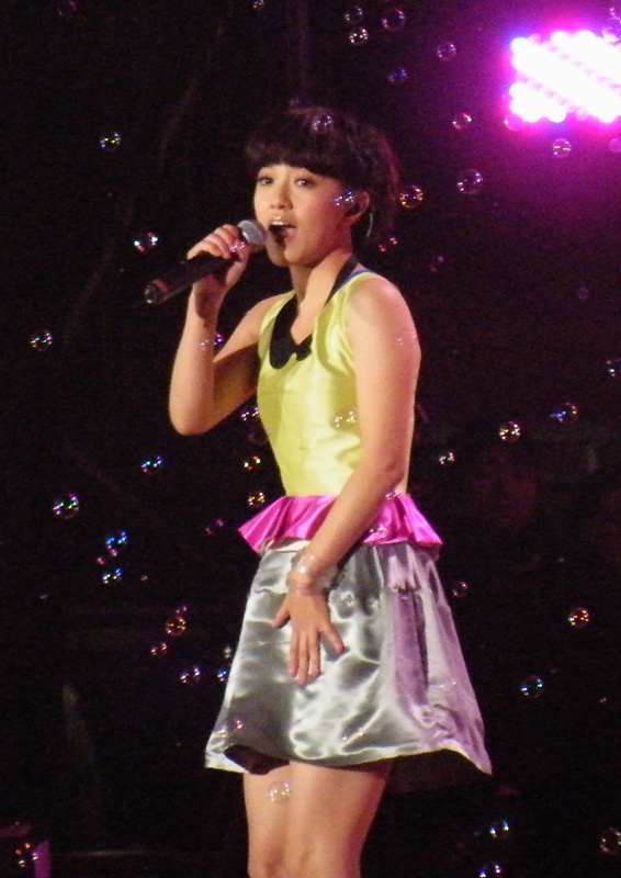 Amber Kuo performed in Taipei New Year's Eve Party 2011